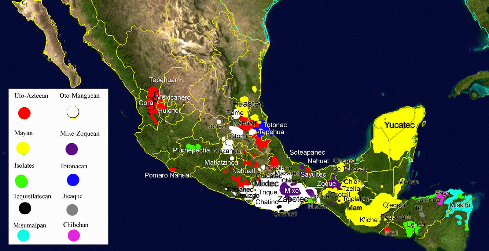 Map showing the languages of mesoamerican (some smaller languages are missing, particularly the languages of the Mayan highlands an Oaxaca)